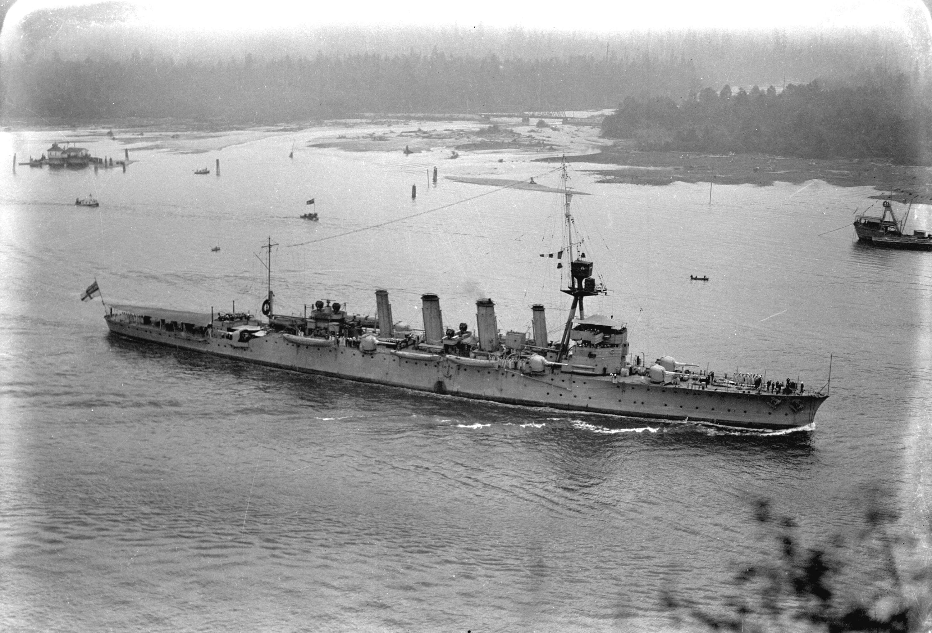 HMAS Adelaide entering first narrows of Burrard Inlet, British Columbia, Canada.